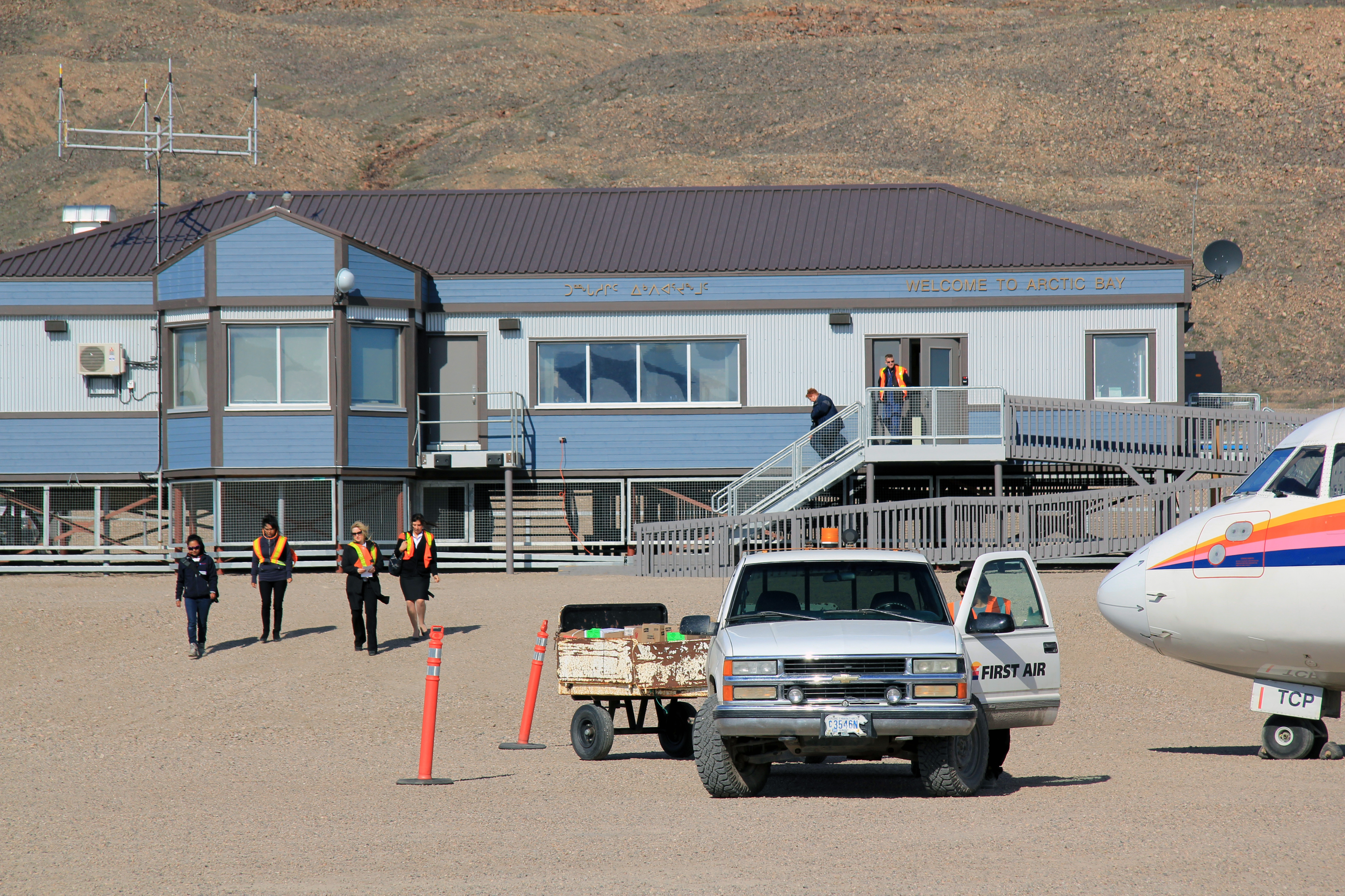 View of the terminal building and the First Air crew heading back to the aircraft.